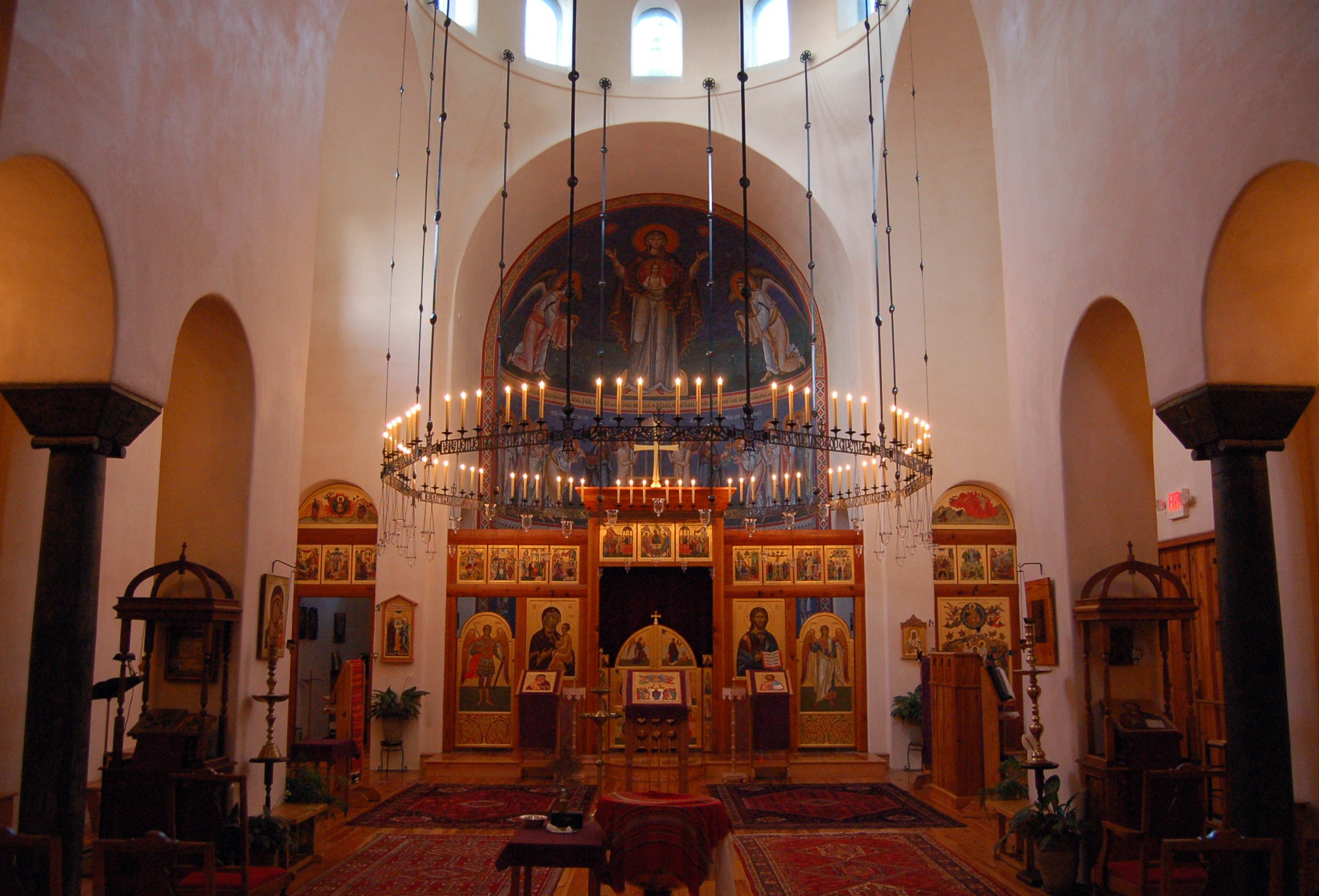 For more pictures of the spectacular new chandelier, please see my other set "Holy Ascension Choros Chandelier." This spectacular Byzantine chandelier was installed in Holy Ascension Orthodox Church (Mt. Pleasant, SC) in April, 2012. When I designed the church eight years earlier, I planned for this chandelier. It is modelled upon the 'Munich Choros', a medieval Byzantine fixture similar to the one still in place in the Decani Monastery, Kosovo. Thanks to a memorial gift, I have finally had the opportunity to build this choros. It is 18 feet in diameter, 22 feet tall, and made primarily of plasma-cut steel parts articulated with hinges. The candles on top are electrified, while the glass lamps hanging below are able to hold oil or candles. The bars include an inscription in ornamental lettering from the book of Revelation: "There shall be no night there, and they need no candle, neither light of the sun, for the Lord God giveth them light, and they shall reign for ever and ever."